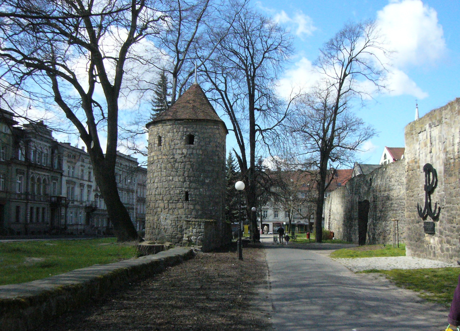 Bolesławiec - city walls